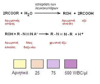 The variety of leucocyte esterase in urine strips.